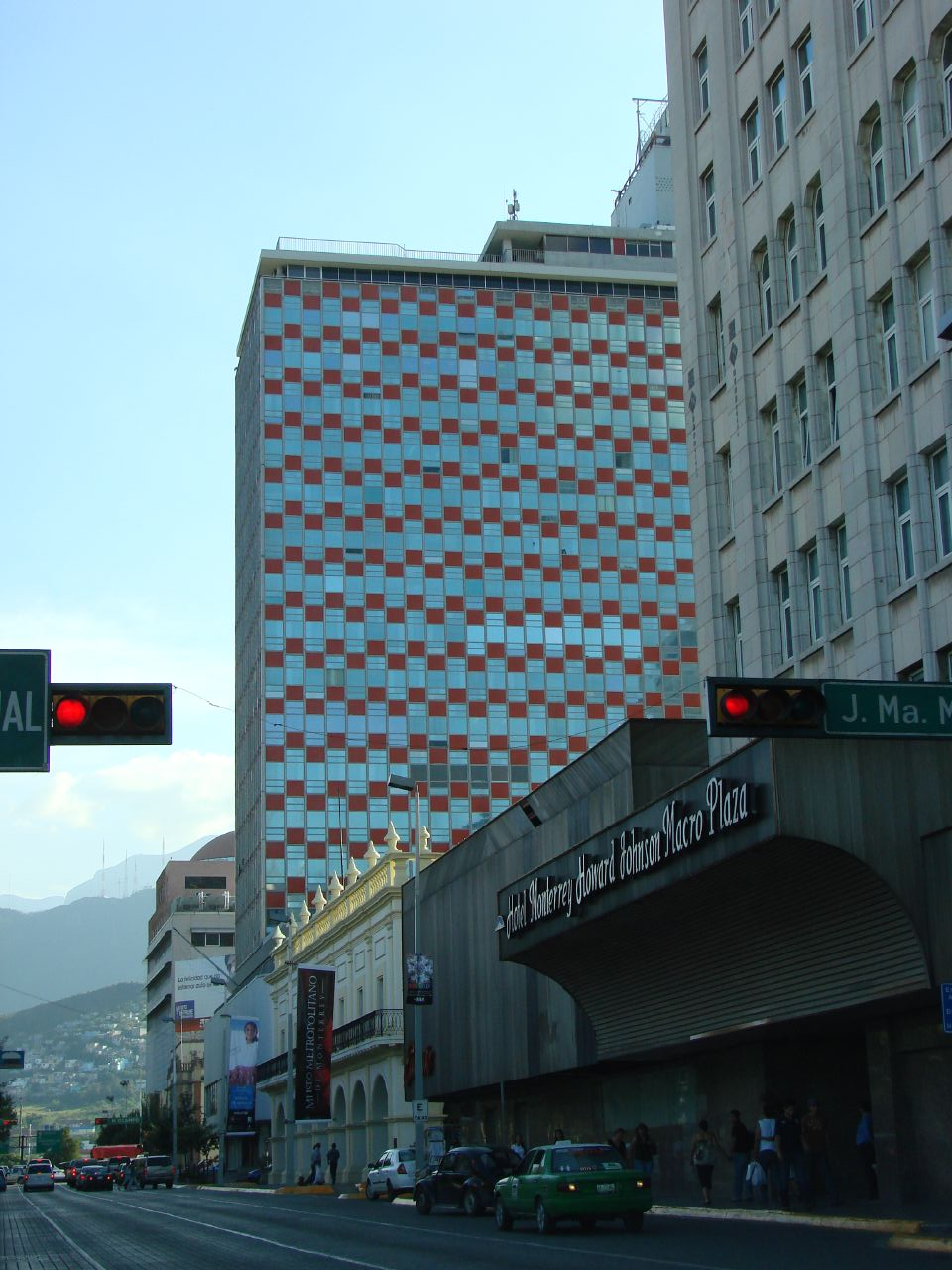 Monterrey, Mexico. The Howard Johnson Macro Plaza Hotel in the foreground